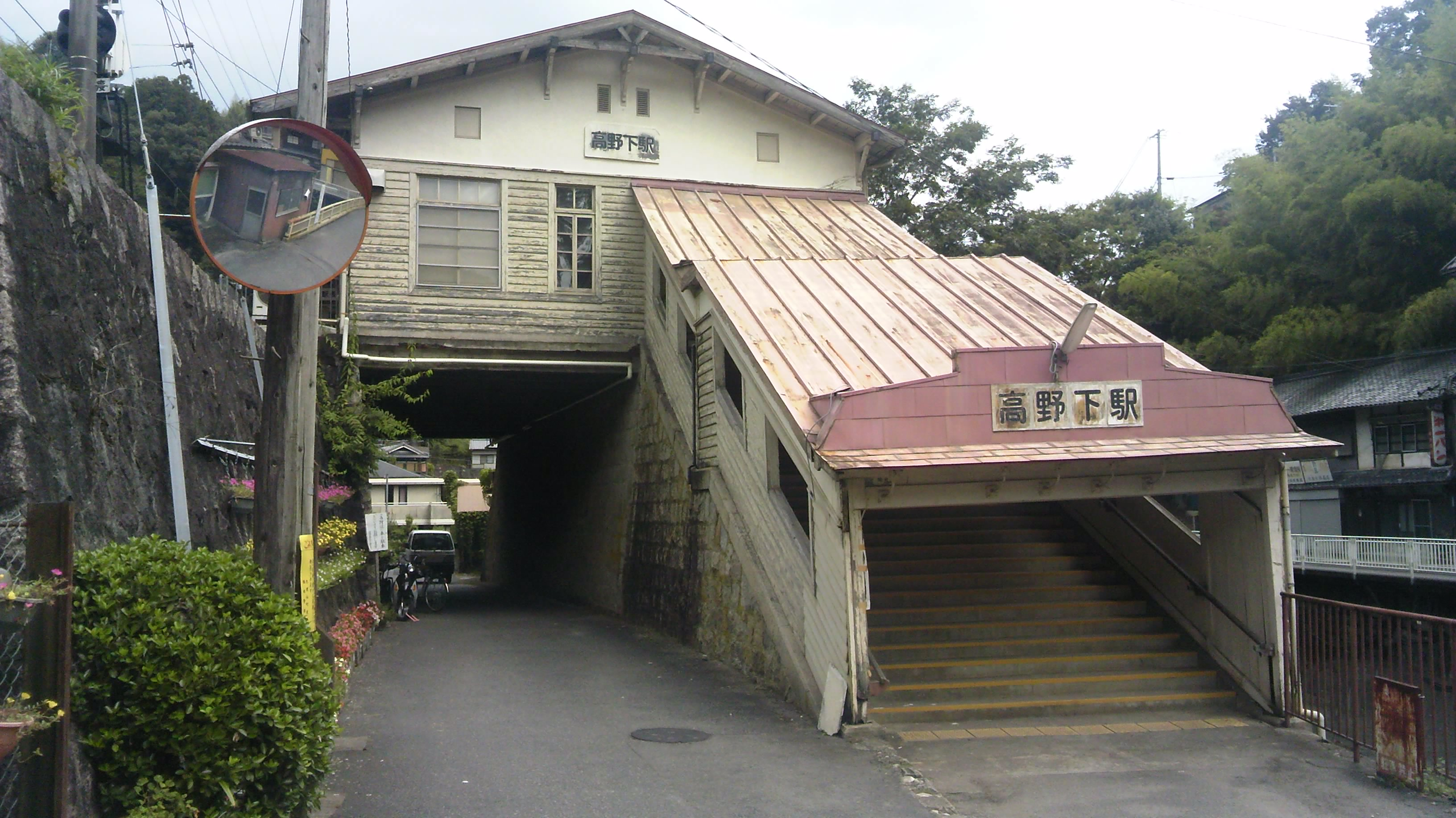 Koya-Shita Station on Nankai Koya Line